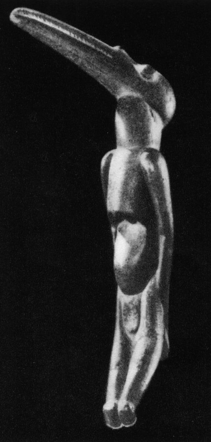 The tangata manu (birdman) statuette which bears rongorongo text X